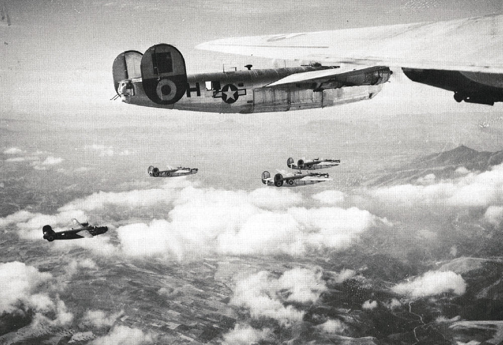 460th Bombardment Group B-24 Liberators Formation. Note the 460th Bomb Group's distinctive tail flash used to identify the group's aircraft.